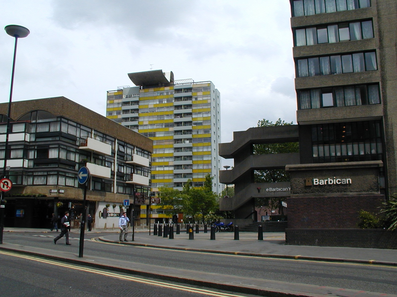 Barbican, London, UK, from Aldersgate Street looking down Fann Street. The block on the left and the yellow block in the centre are part of the Golden Lane Estate, which is Corporation of London social housing, whereas the Barbican Estate is private housing.